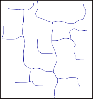 Rectangular drainage pattern Free for all use Author:Eurico Zimbres